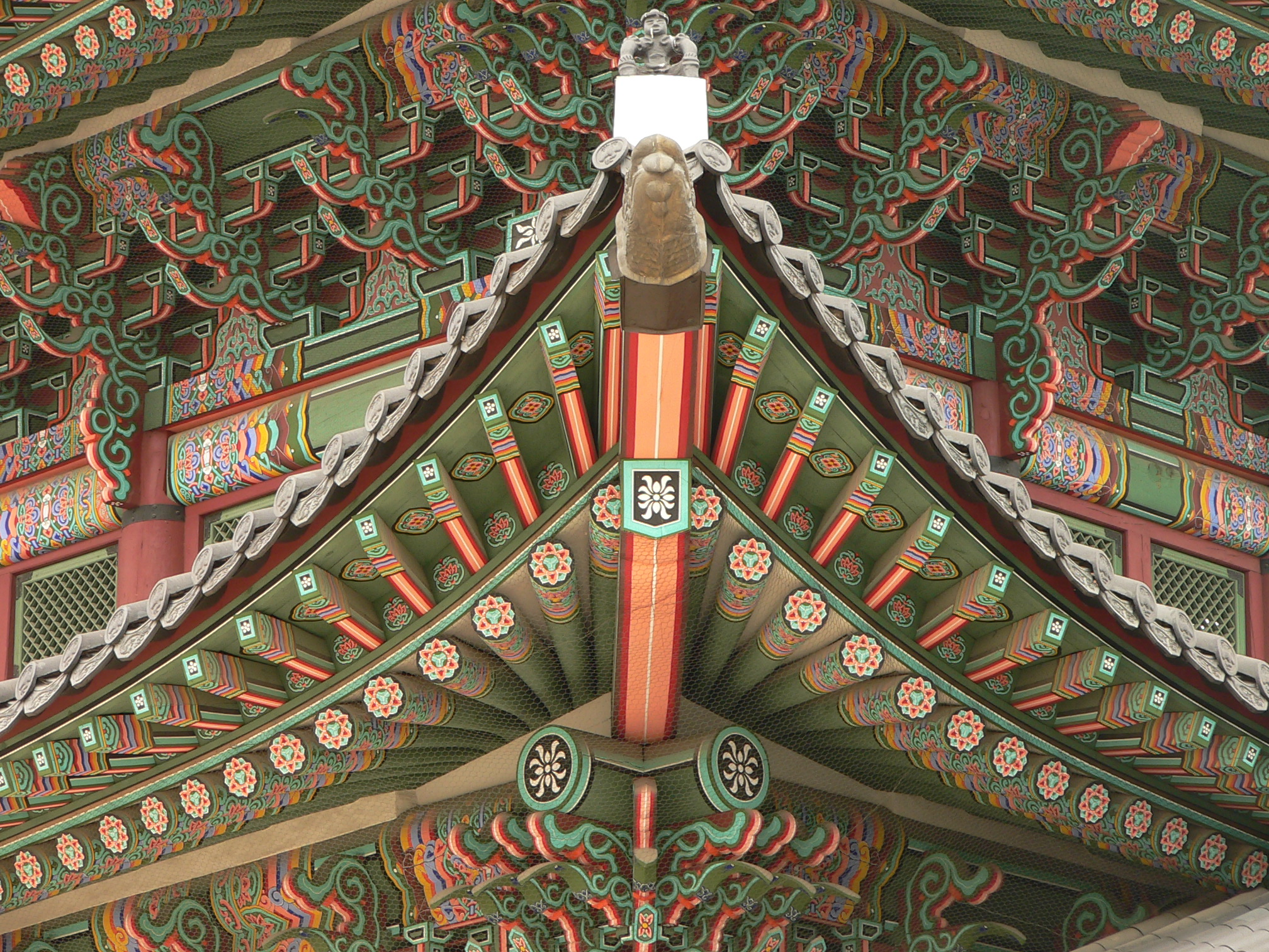 Dancheong or traditional painted eaves, at Gyeongbokgung, South Korea.